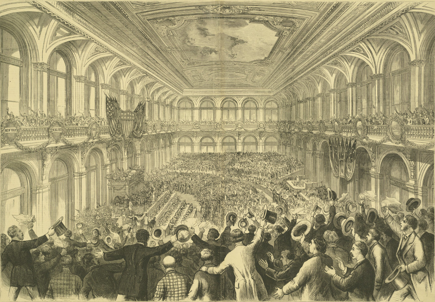 Collection: Cornell University Collection of Political Americana, Cornell University Library Repository: Susan H. Douglas Political Americana Collection, #2214 Rare & Manuscript Collections, Cornell University Library, Cornell University Title: Missouri - The Democratic National Convention Political Party: Democratic Election Year: 1876 Date Made: 1876 Measurement: Sheet: 16 x 21.75 in.; 40.64 x 55.245 cm Classification: Publications Persistent URI: There are no known U.S. copyright restrictions on this image. The digital file is owned by the Cornell University Library which is making it freely available with the request that, when possible, the Library be credited as its source.